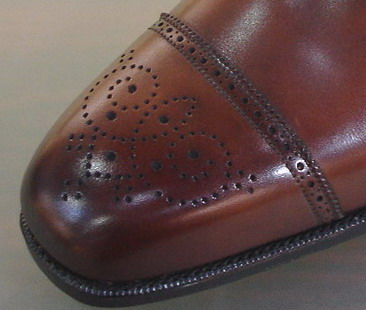 Toe cap detail of a man's semi-brogue dress shoe